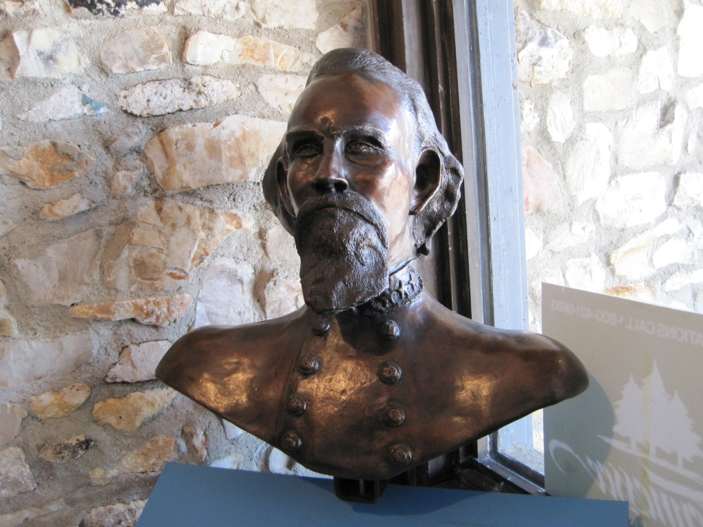 Nathan Bedford Forrest State Park in Camden, Tennessee. I took the photos myself, feel free to use them.